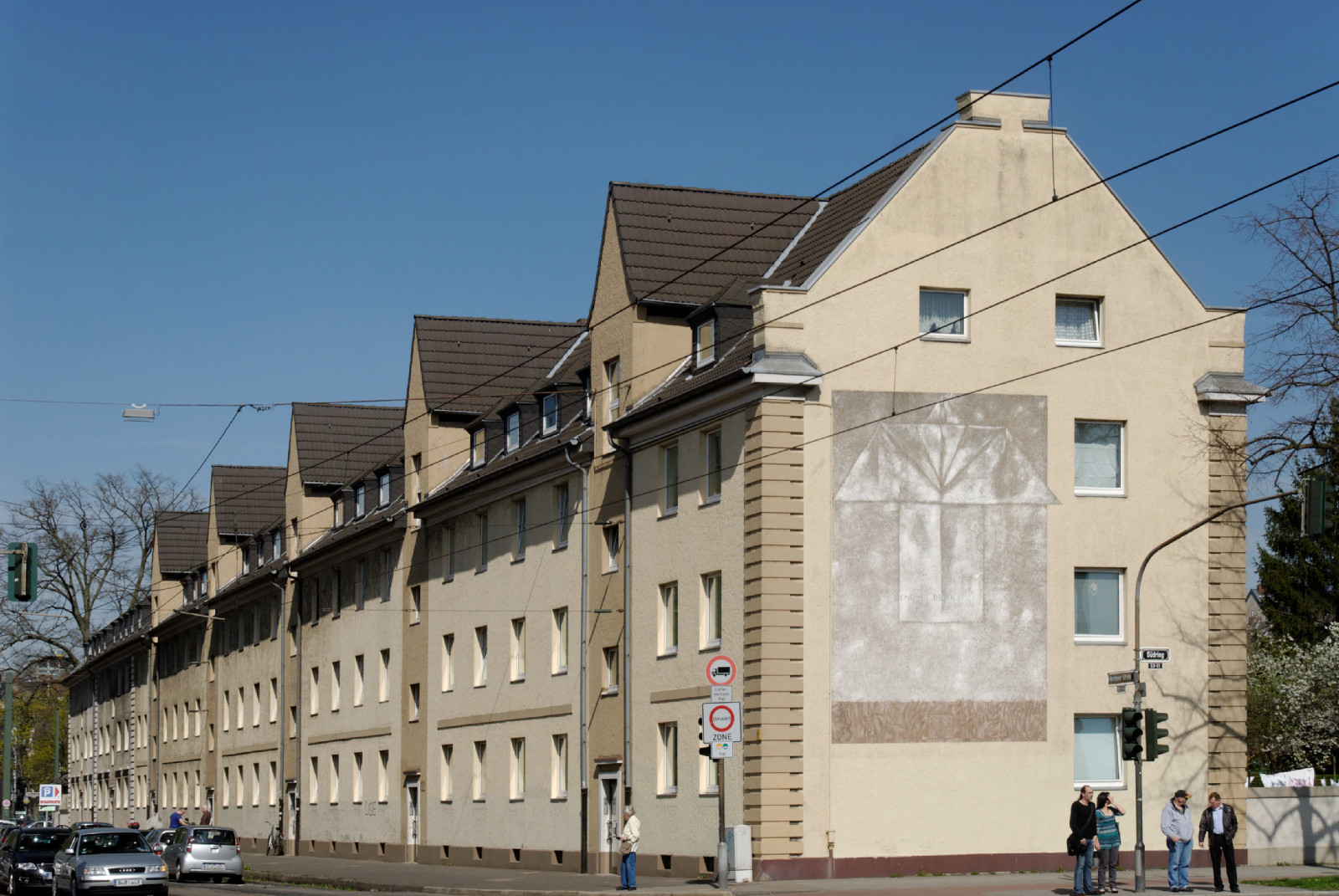 Houses Aachener Straße 112 to 124 in Düsseldorf-Bilk, Germany This is a photograph of an architectural monument.